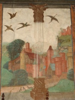 Particular of a fresco from XV century from Issogne castle in Aosta Valley